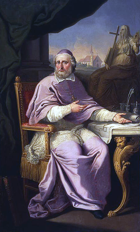 Bishop Jan Stefan Giedroyć by Franciszek Smuglewicz (before 1795)